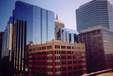 skyscrapers of Oklahoma City The copyright holder, User:Tosei, of this image hereby irrevocably releases all rights to it, allowing it to be freely reproduced, distributed, transmitted, used, modified, built upon, or otherwise exploited in any way by anyone for any purpose, commercial or non-commercial.